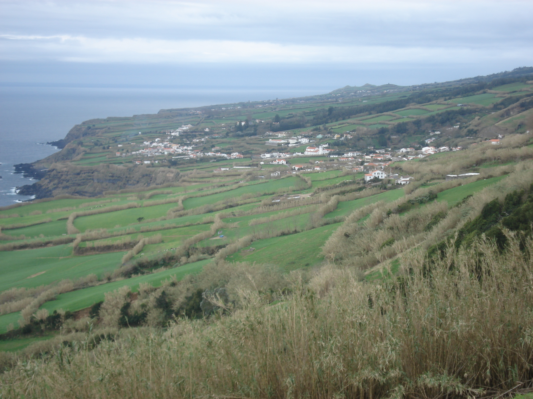 Feteiras, civil parish in the southwestern coast of the municipality of Ponta Delgada, São Miguel Island, Azores